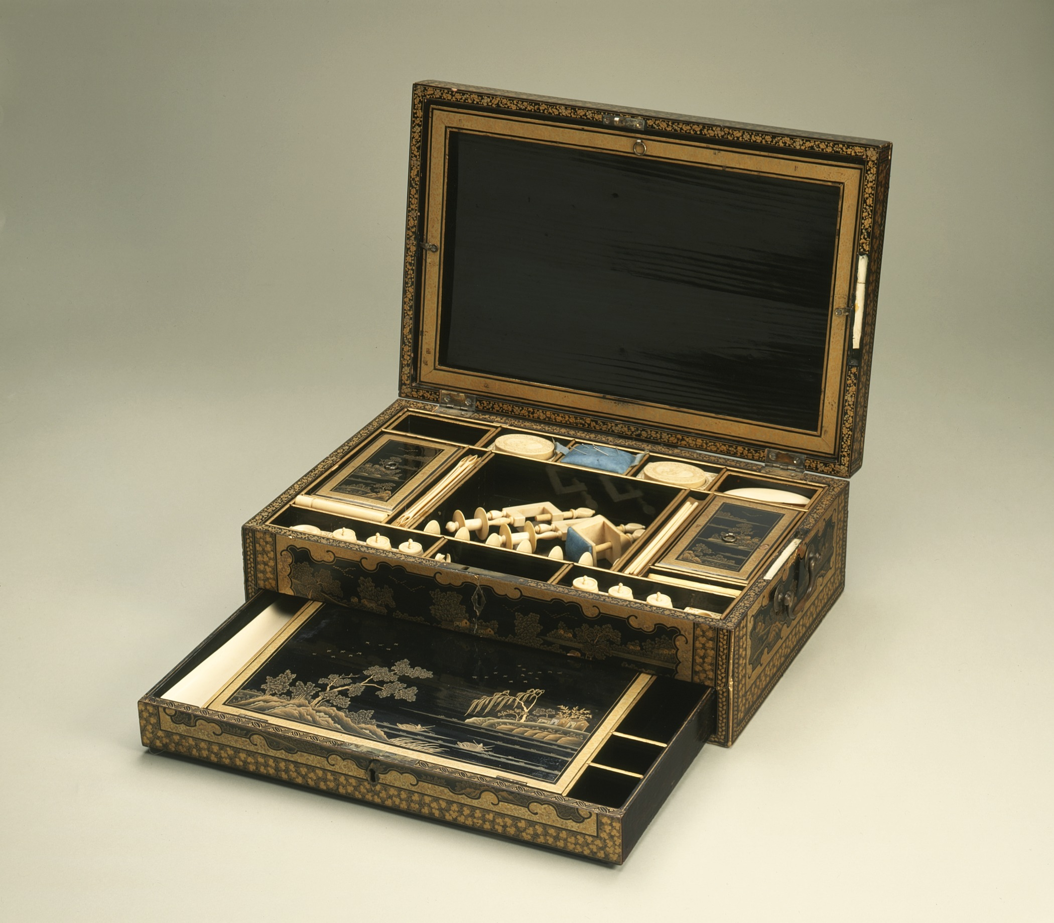 China, mid-19th century Tools and Equipment; boxes Lacquer, gold paint, ivory, silk 6 x 17 x 11 in. (15.24 x 43.18 x 27.94 cm) Gift of Dr. and Mrs. Franklin Horowitz and family (AC1995.219.2) Costume and Textiles